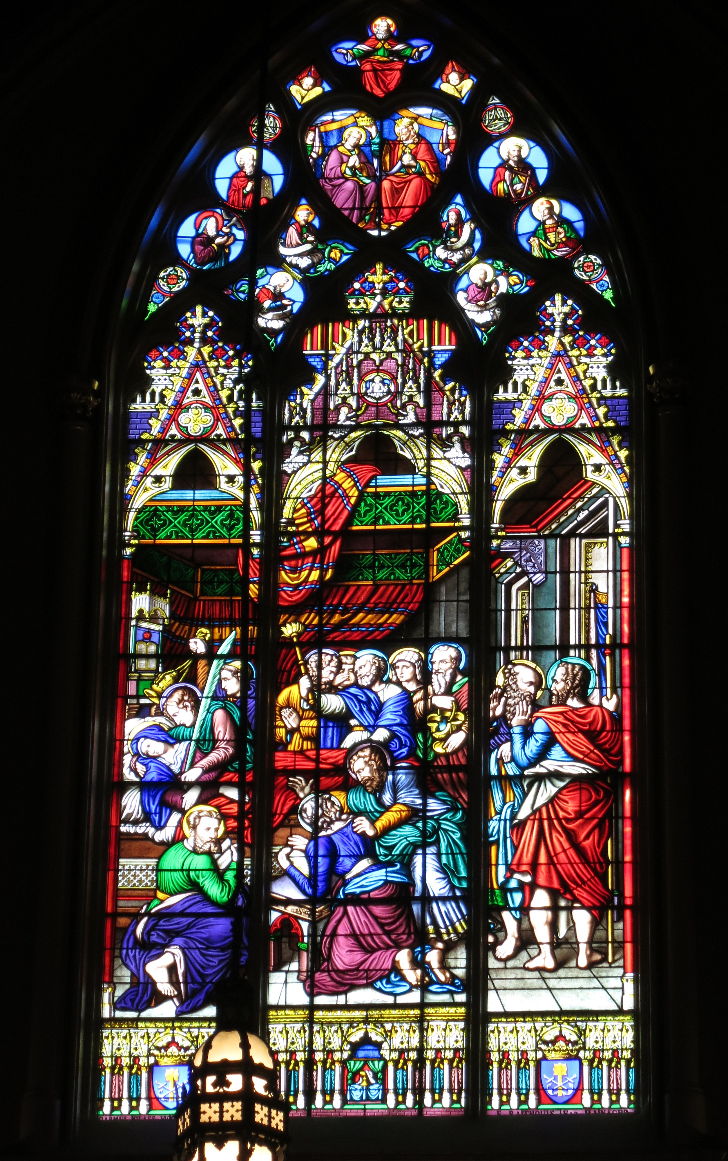 Basilica of the Sacred Heart (Notre Dame, Indiana) - interior, stained glass, Dormition of the Blessed Virgin Mary